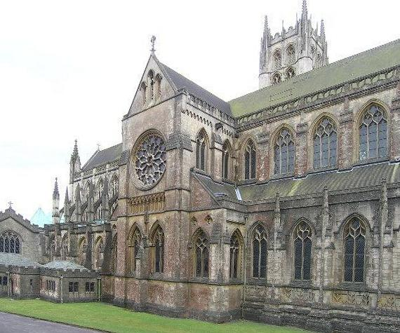 Downside Abbey, Stratton on the Fosse, Somerset